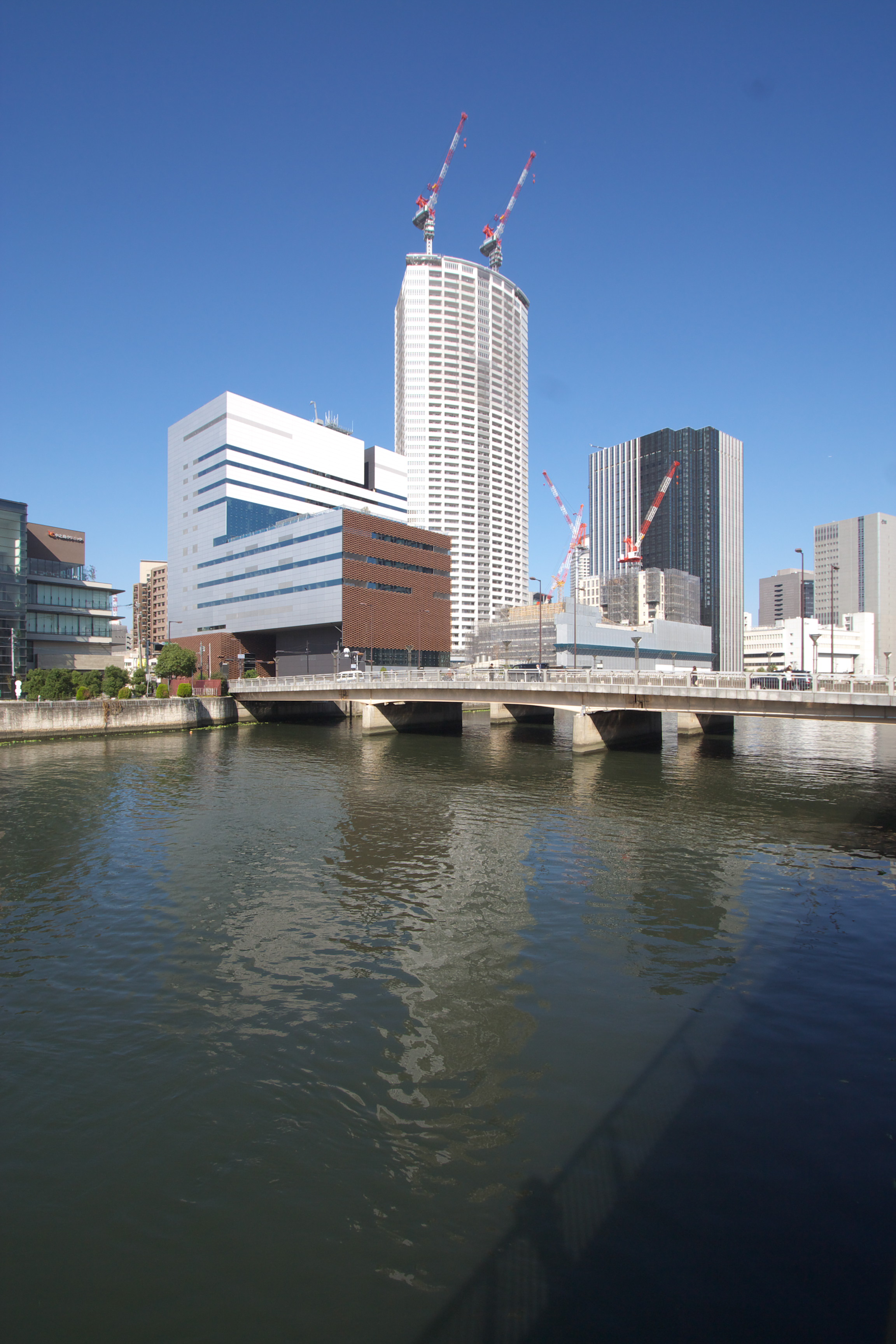 Tamaebashi Bridge and new Building of the Asahi Broadcasting Corp. (Osaka, JAPAN)